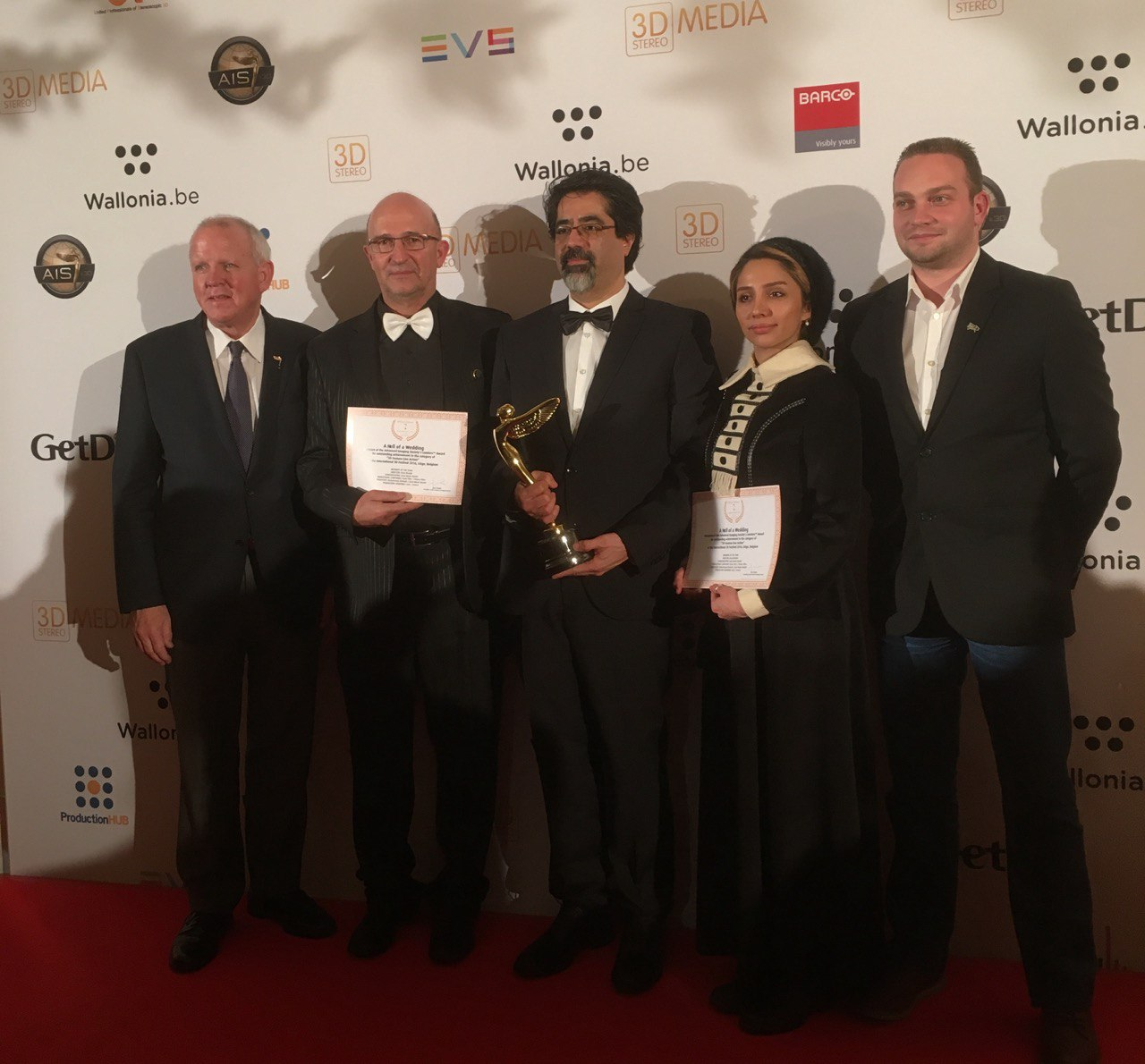 Reza Khatibi in "3D Stereo Media" film festival-2016